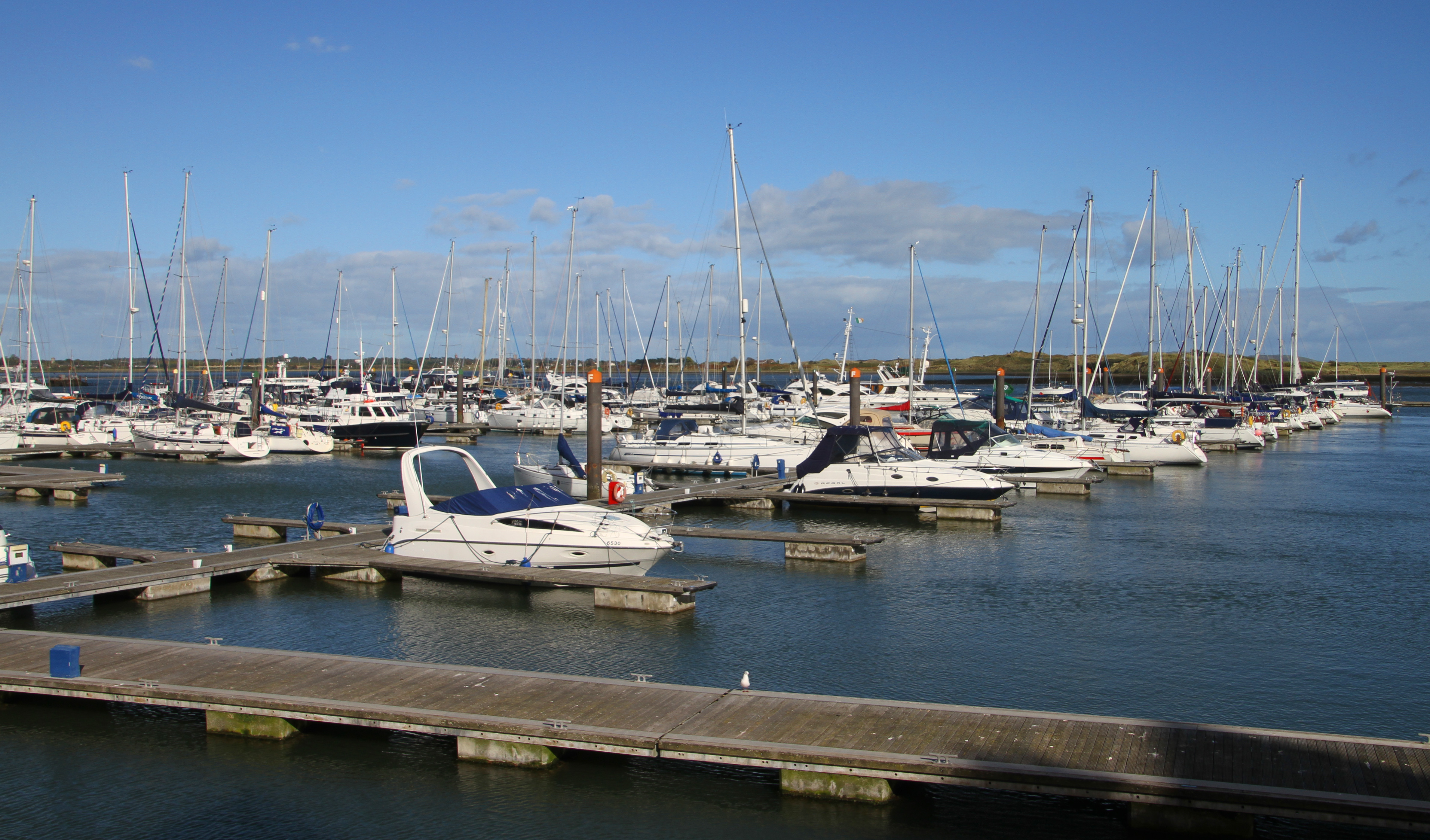 Malahide, Ireland